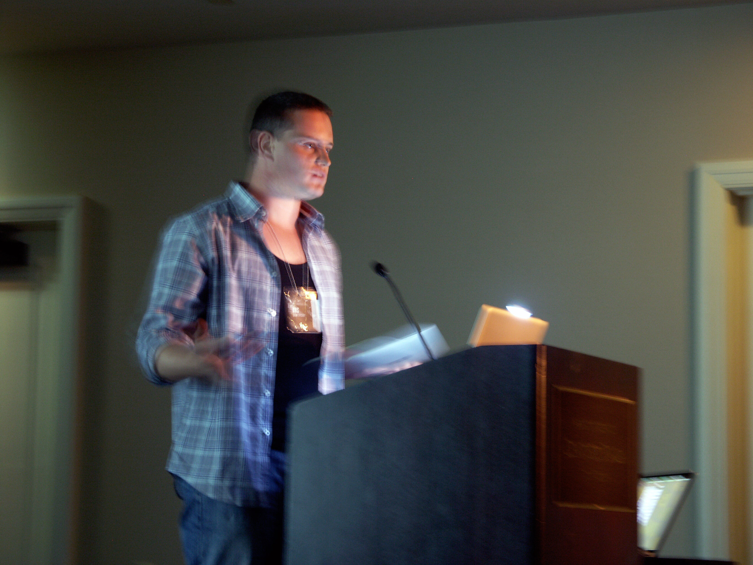 New Zealand font designer Kris Sowersby speaking at Typecon 2010 Los Angeles